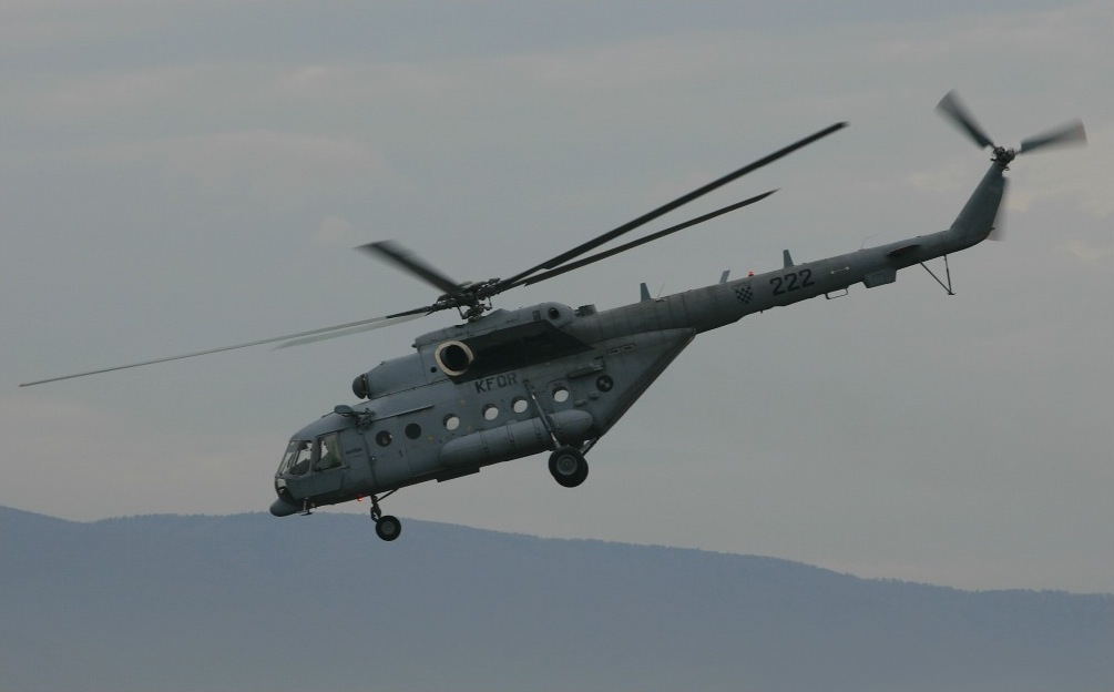 Croatian Air Force MIL Mi-171Sh at 20th aniversary